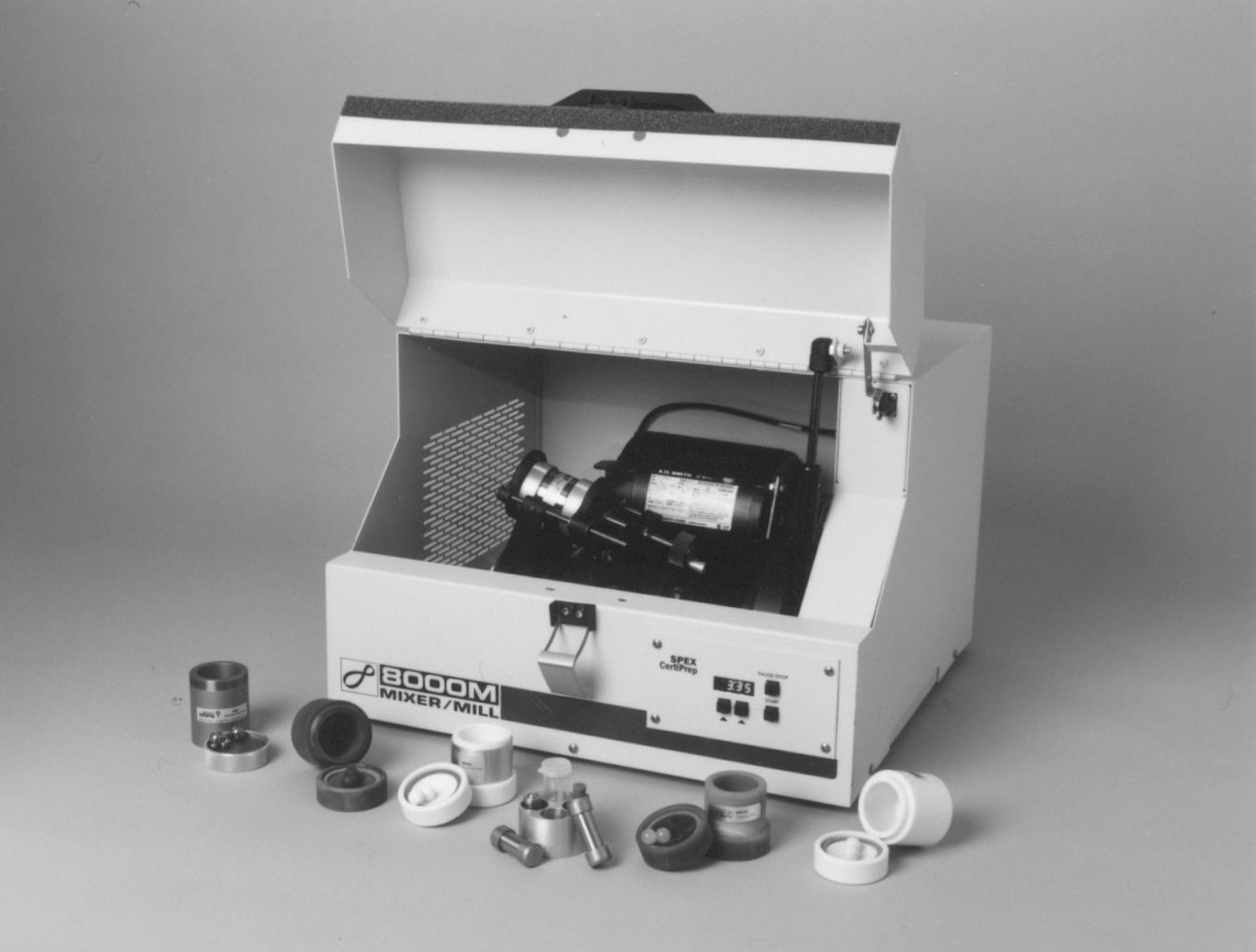 ball mill photo